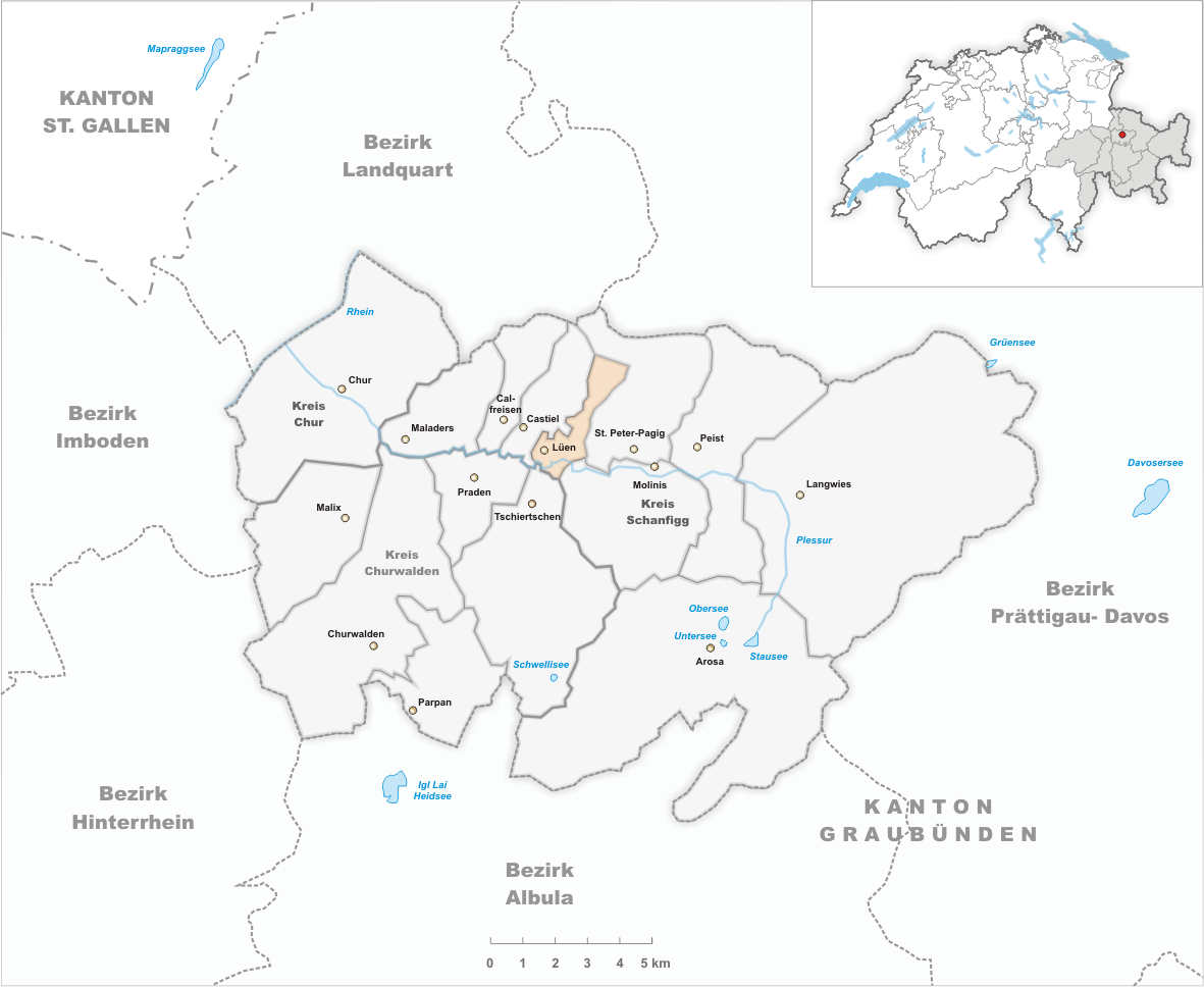 Municipality Lüen